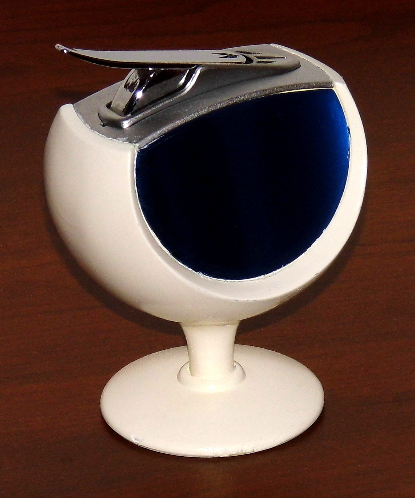 Vintage Maruman Piezo-Electric Table Lighter, Model T26 Sharon, Made In Japan, Circa 1970s